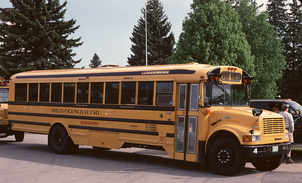 A Thomas conventional-style school bus, owned by Ledgemere Transportation and operated on behalf of the Wells-Ogunquit Community School District in Wells, Maine, USA.